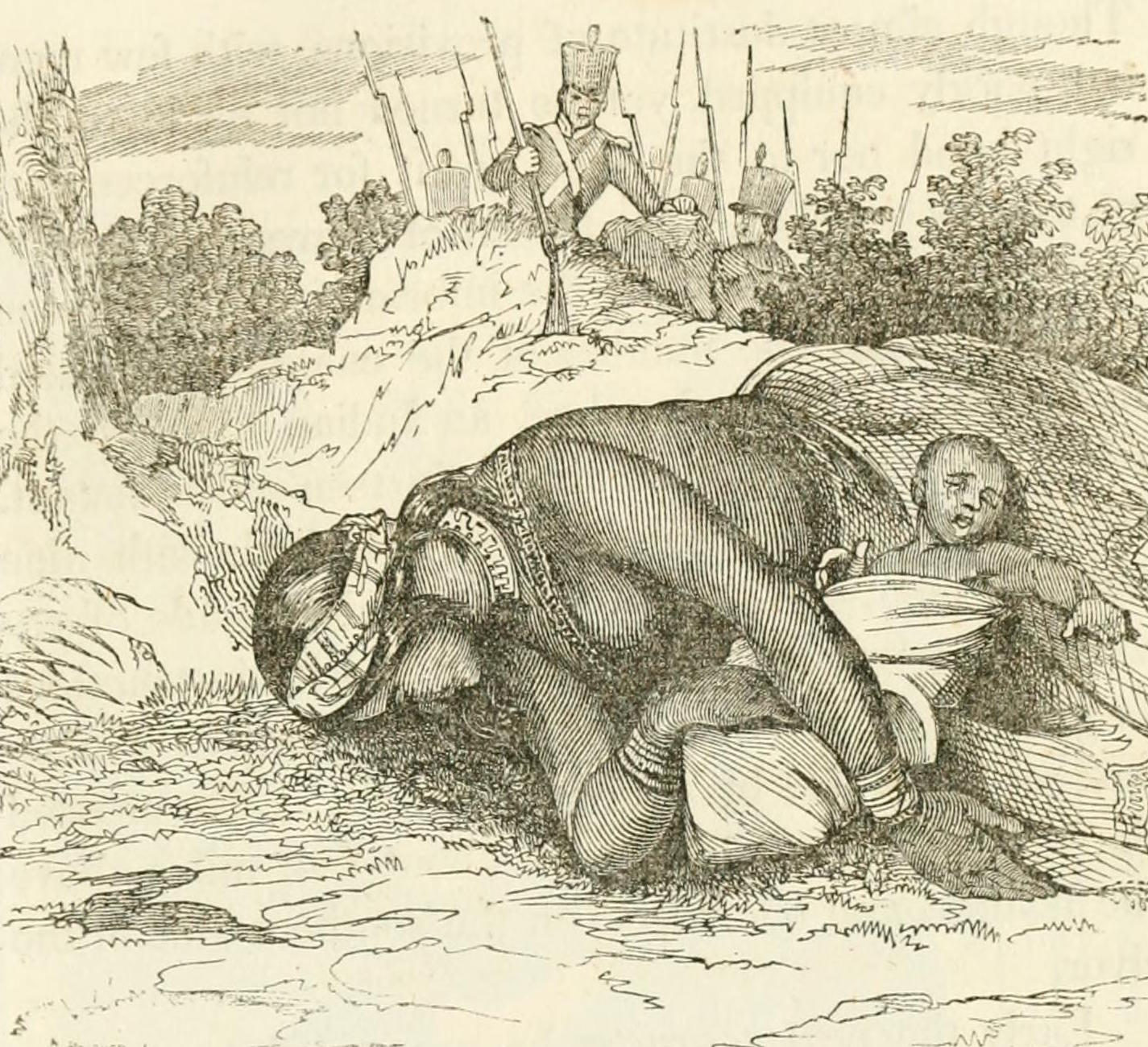 Image of Lyncoya Jackson with his dead mother.